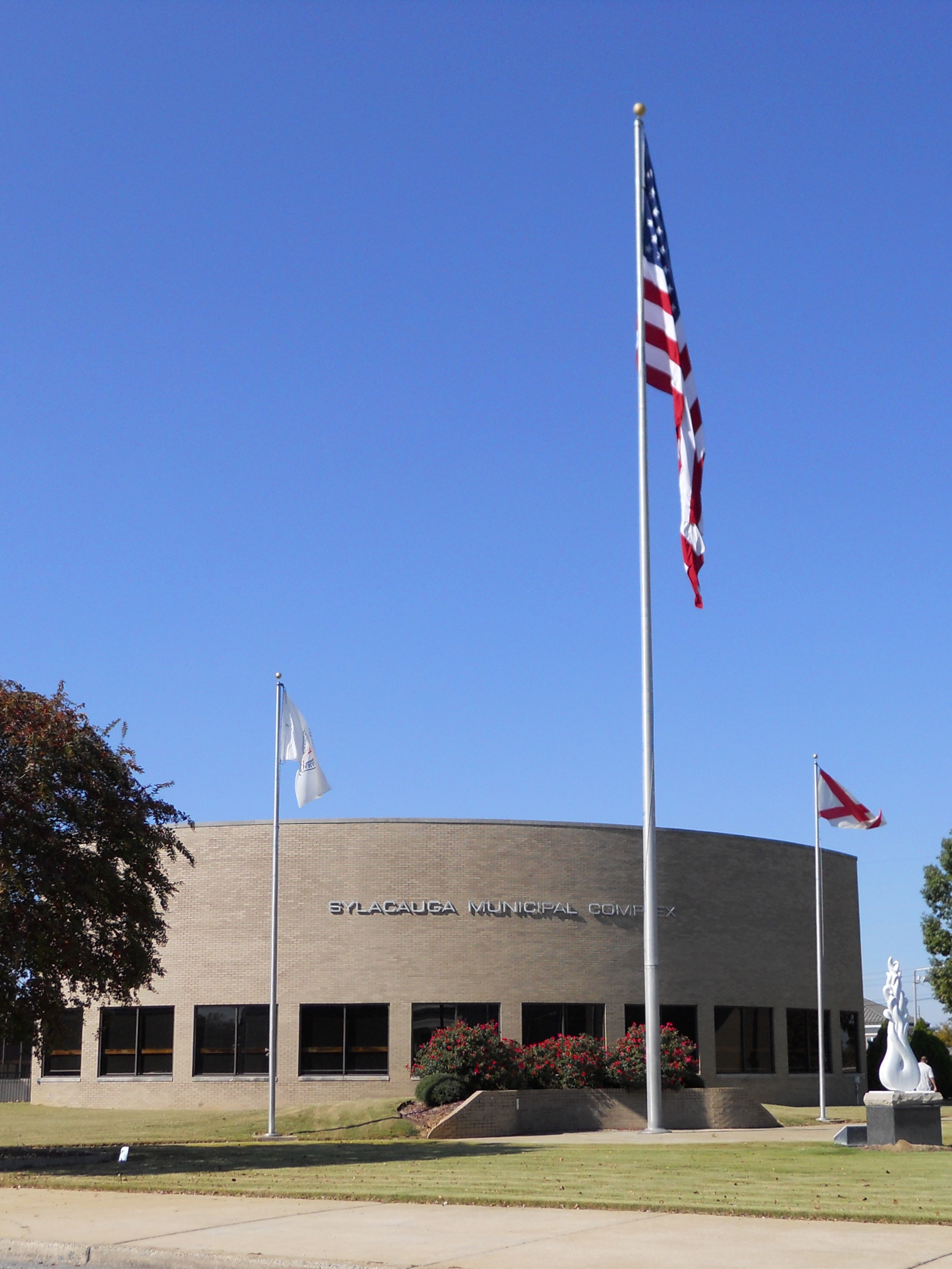 This is a photo of the Sylacauga Municipal Complex in Sylacauga, AL.